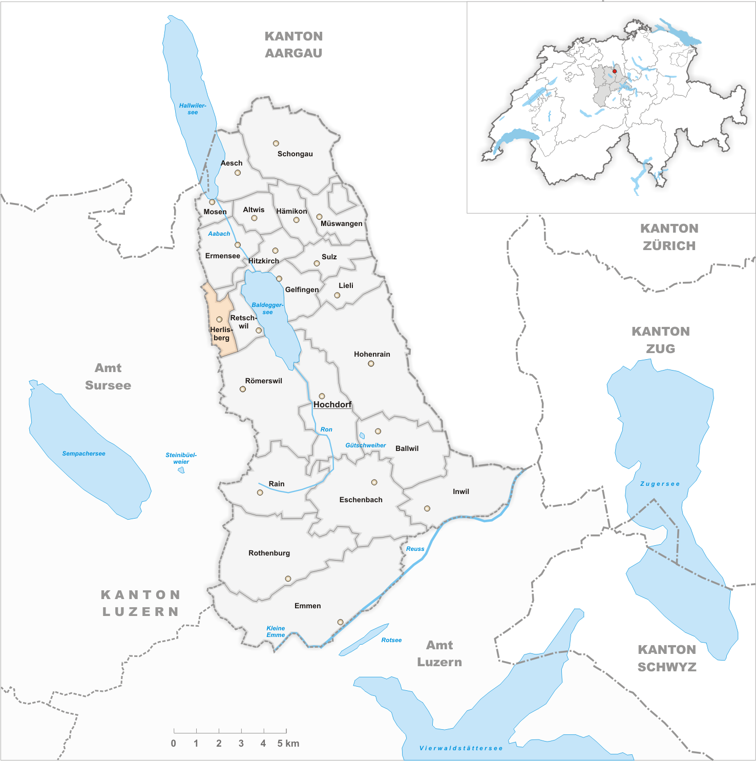 Municipality Herlisberg Artist: Tschubby